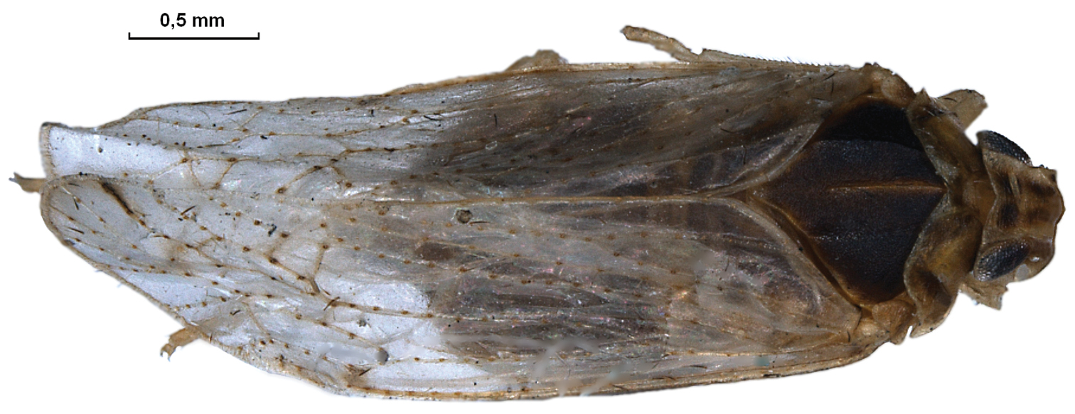 Trigonocranus emmeae macropterous female (photo by A. Stroiński).